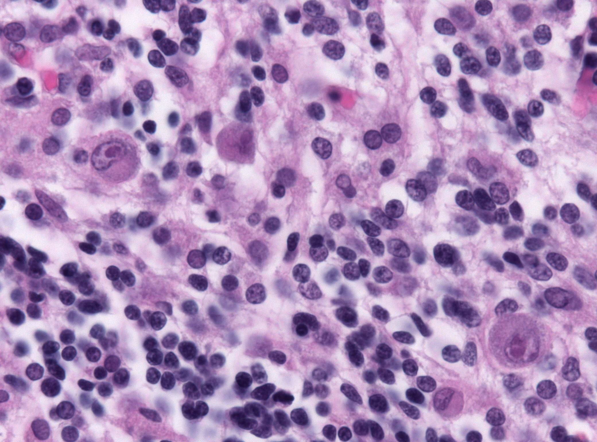 Neuronal inclusions in supependymal cells of the IVth ventricle in a neonate with CMV infection